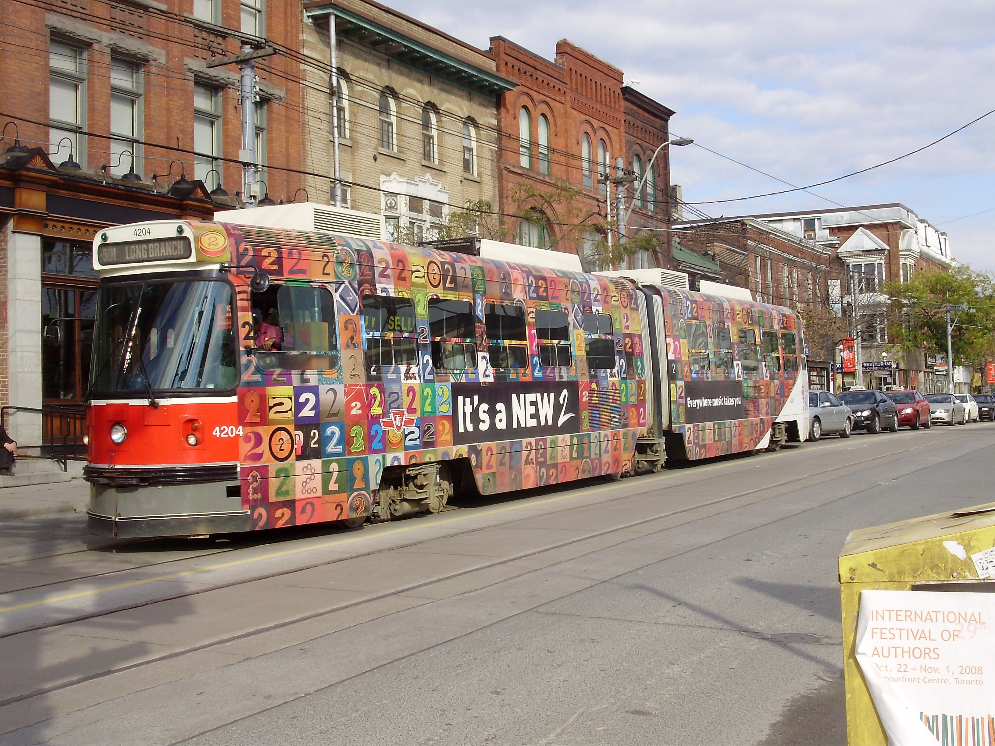 The Toronto Transit Commission's ALRV streetcar #4204 decked out in temporary wrap advertising for CBC Radio 2, a radio music network operated by the Canadian Broadcasting Corporation, at the intersection of Queen Street West and Gladstone Avenue in Toronto, Ontario, Canada.